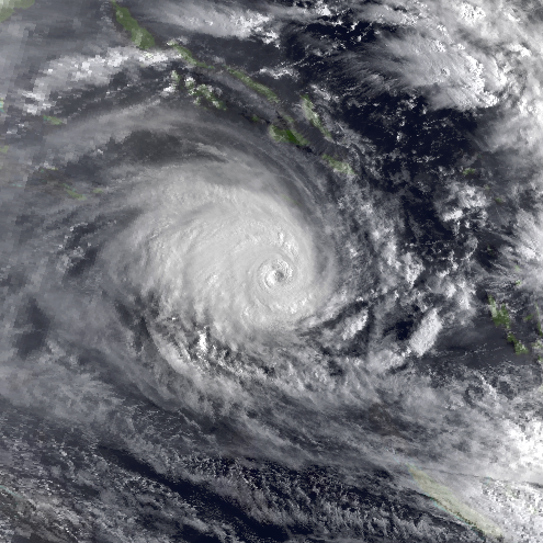 Cyclone Esau as a Category 4 tropical cyclone on February 28, 1992.